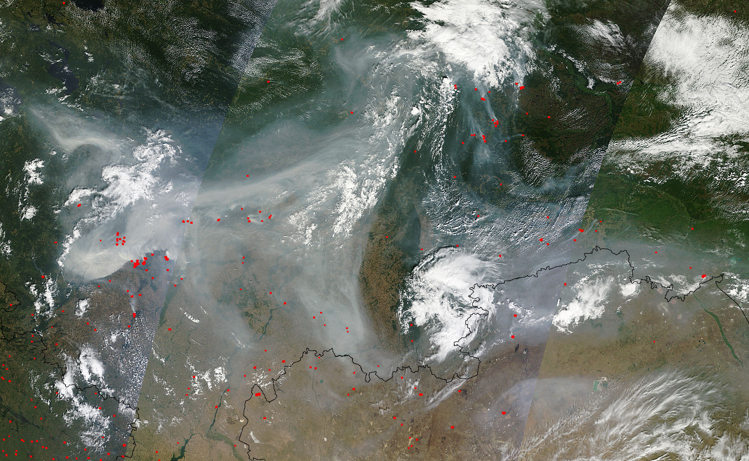 Smoke and fires across western Russia